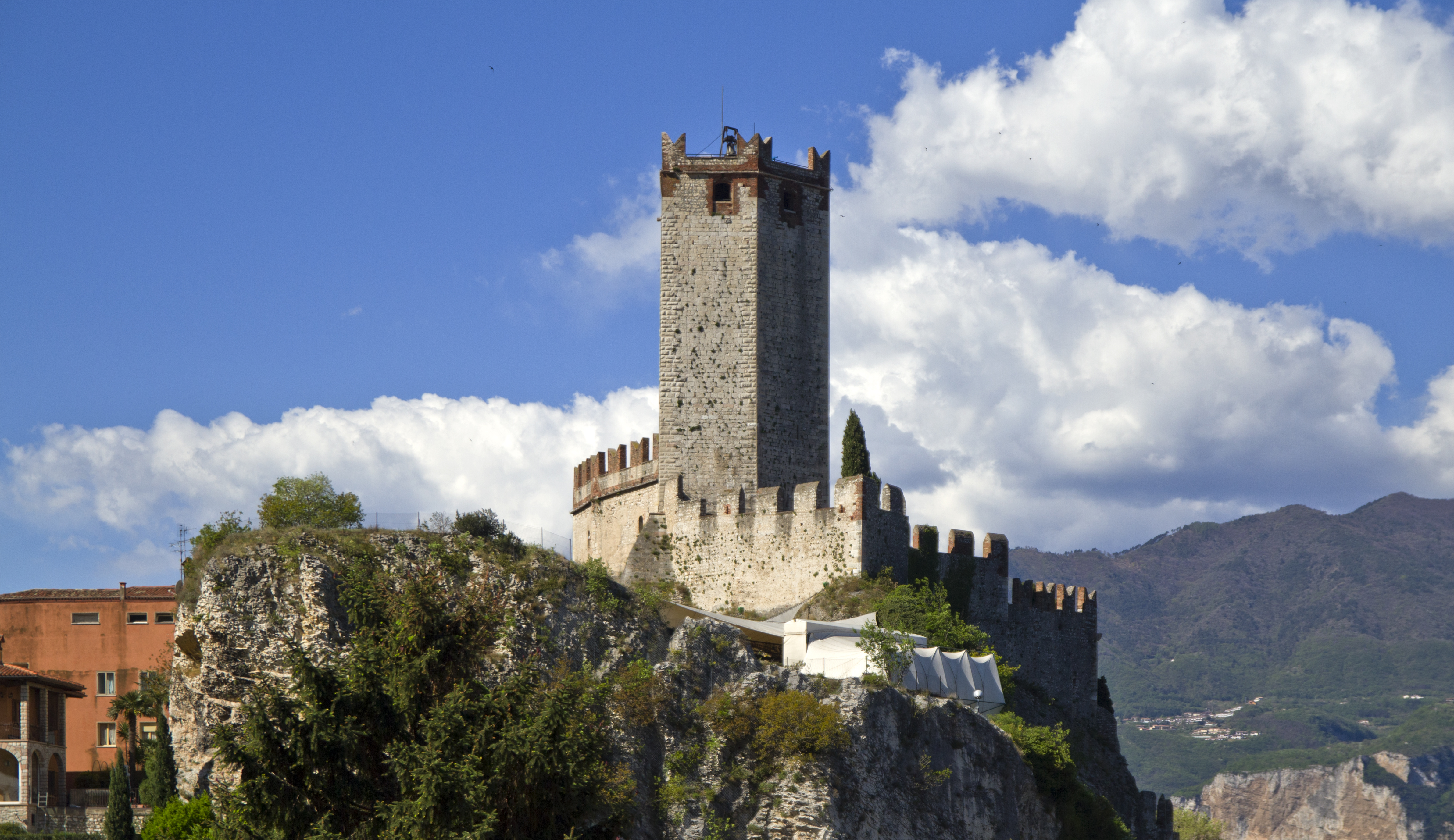 37018 Malcesine, Province of Verona, Italy